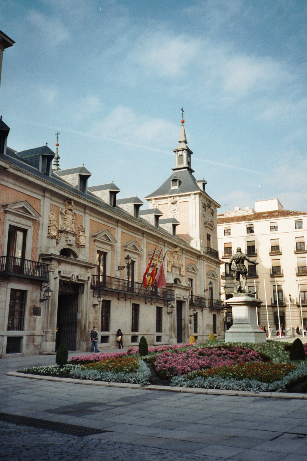 Description: La Plaza de la Villa, Madrid. Source: Self-made, I release it into the public domain.